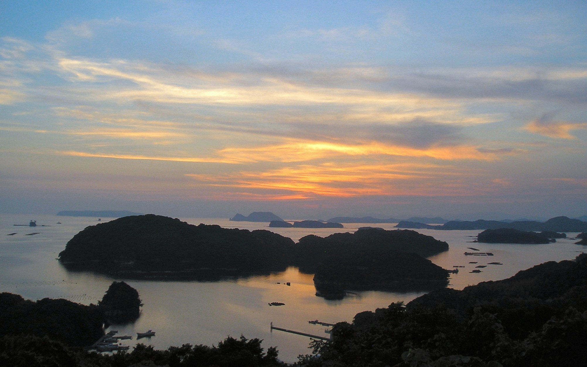 Sunset of the 99 Islands from Funakoshi Viewpoint, Sasebo, Japan